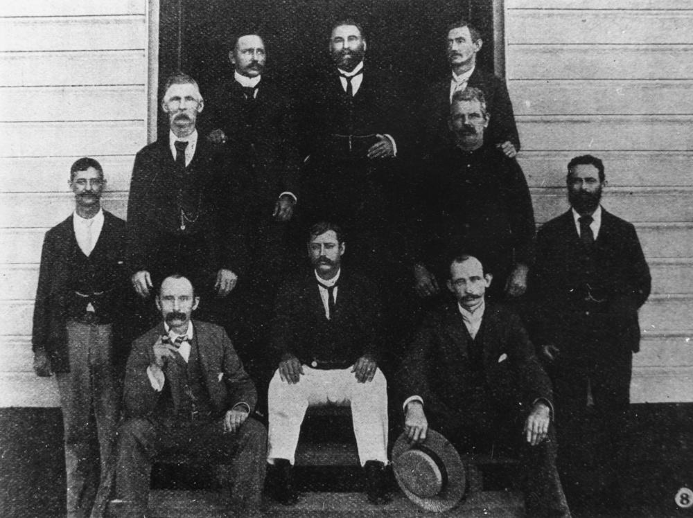 Members of the Proserpine Chamber of Commerce, 1906.